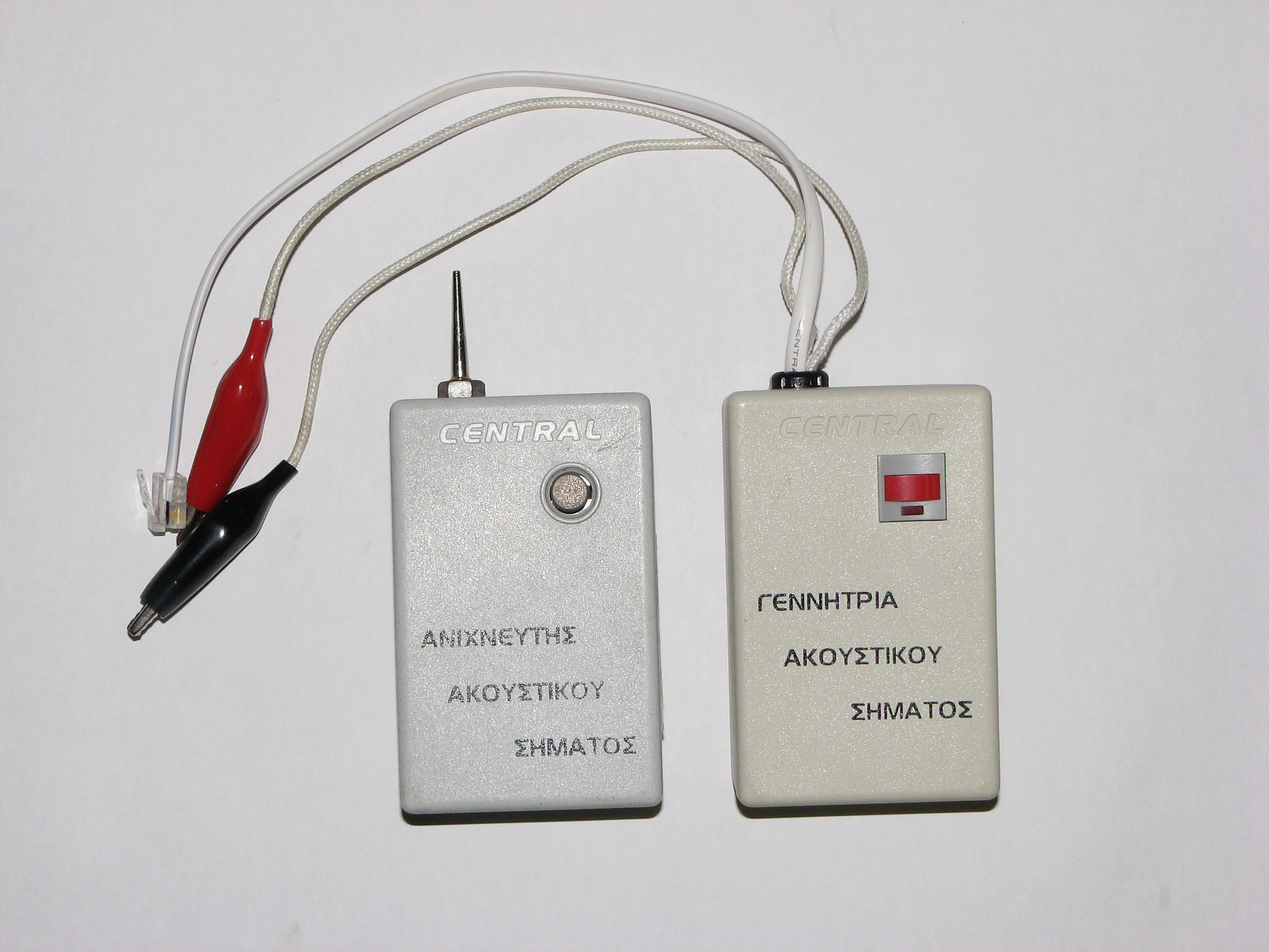 An acoustic signal tone generator (to the right) and a wire tracer (or probe, to the left). Used in locating a pair of wires amongst many.